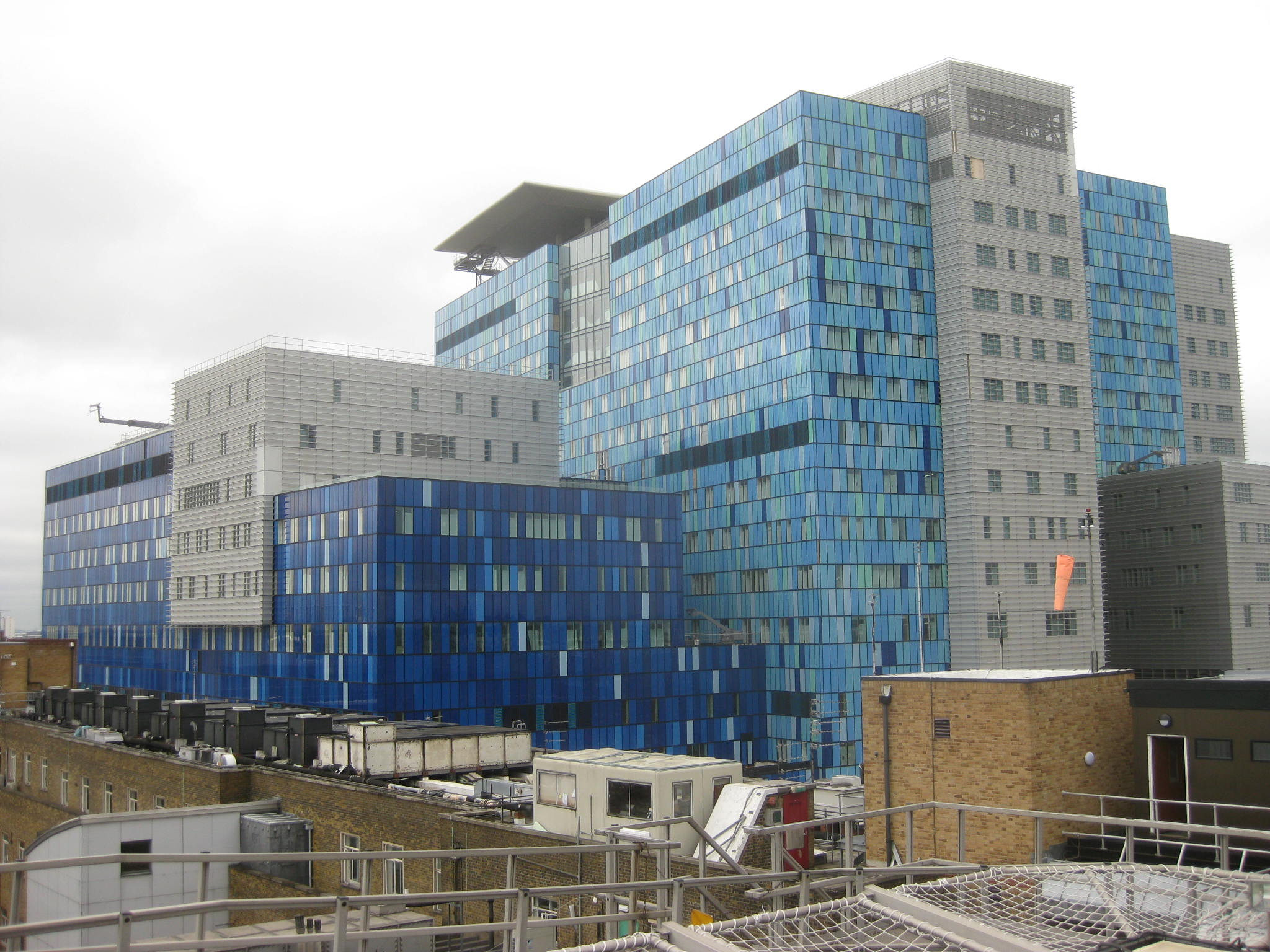 Royal London Hospital redevelopment.